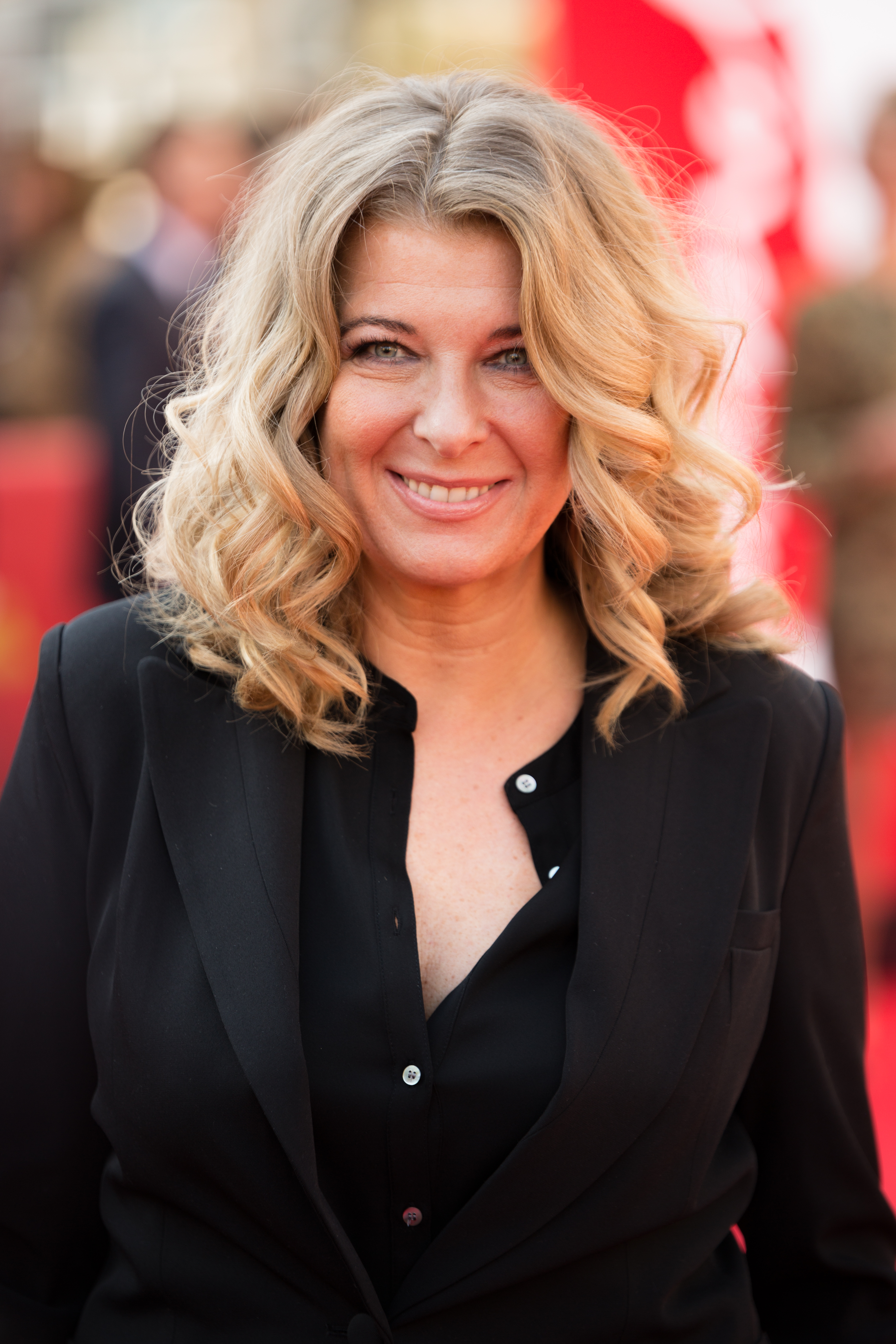 The actress Paprika Steen of danish series Gidseltagningen (Below the Surface) at the Berlinale 2017